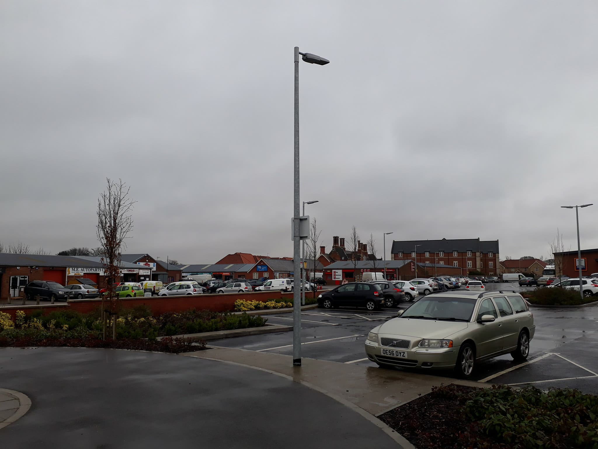 My own.